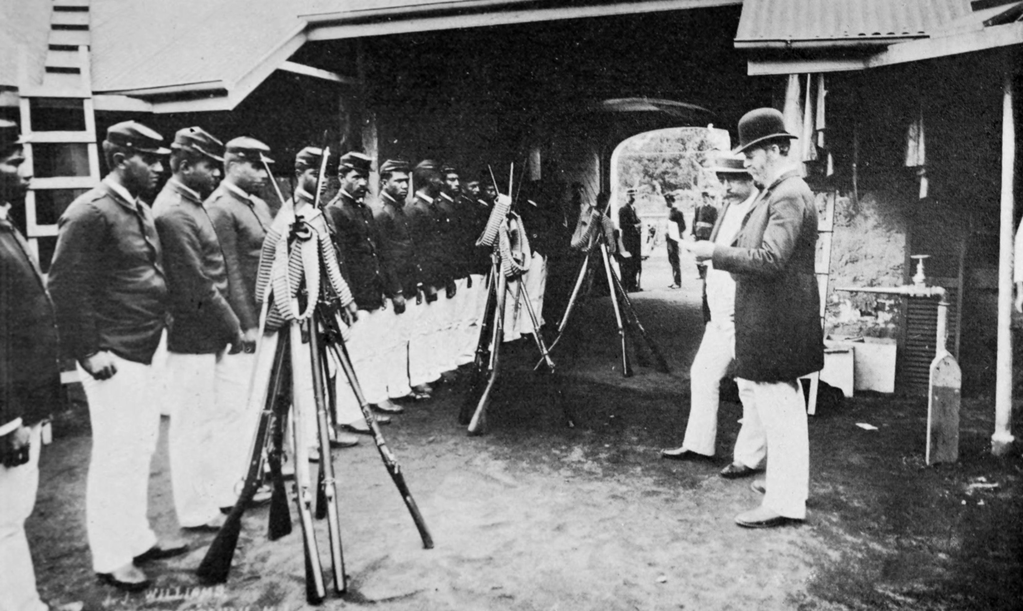 Queen Liliuokalani's Household Guard being disarmed by Col. John H. Soper, following the overthrow of the monarchy in January, 1893. The Hawaiians stacked arms, turned over equipment and list to "The Authority" notice read by Colonel Soper, afterwards General. While Captain of the Guard Samuel Nowlein looks toward the camera beside Soper.